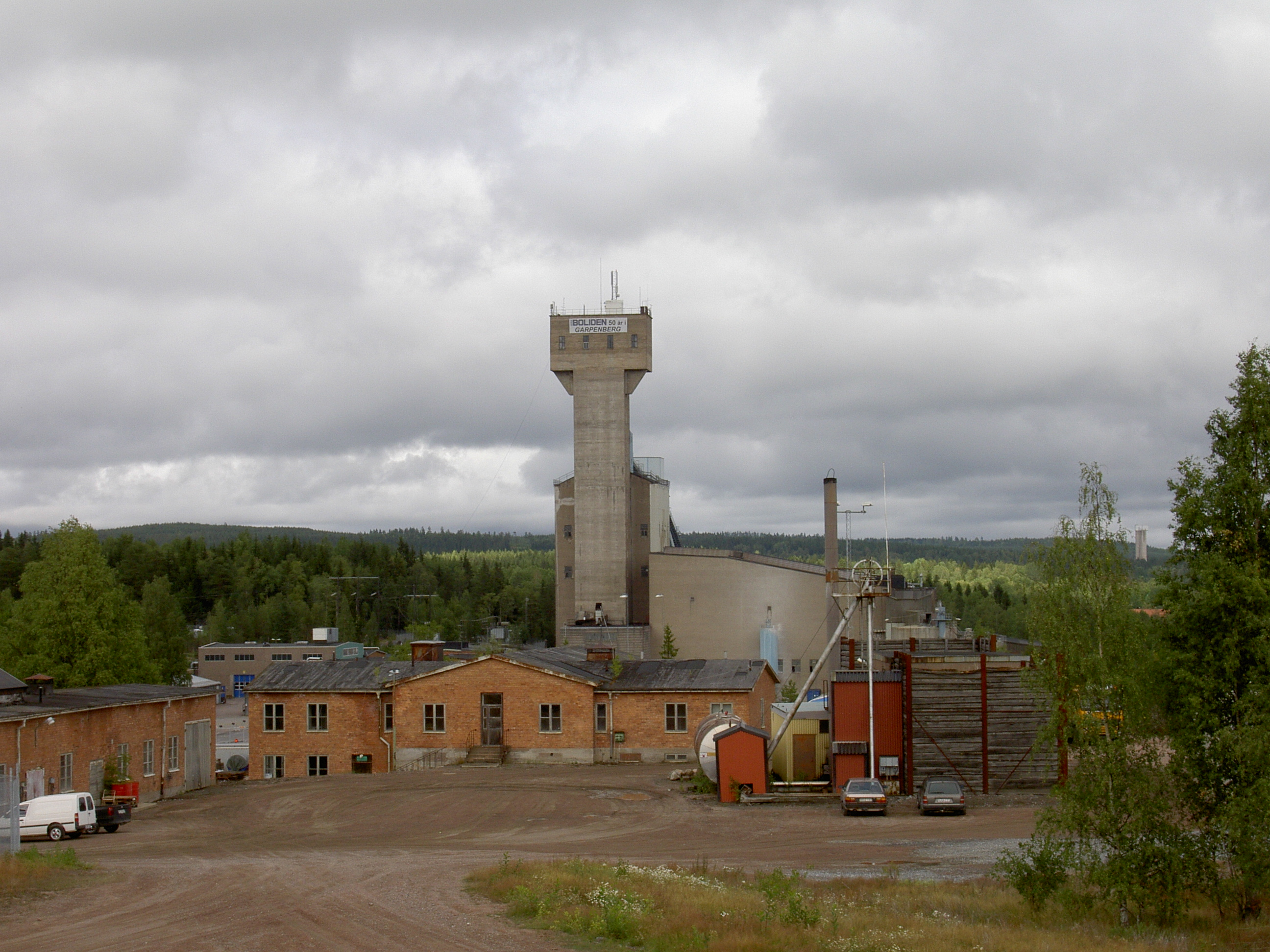 Some of the buildings belonging to Garpenberg's mine (Boliden AB), Sweden.